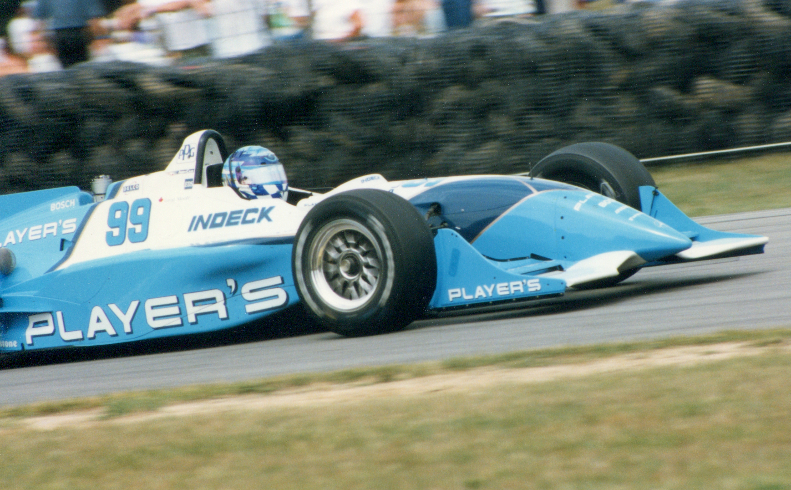 Greg Moore driving for Player's Forsythe racing in practice for the Miller 200 at Mid-Ohio Sports Car Course in Lexington, Ohio on August 10, 1996